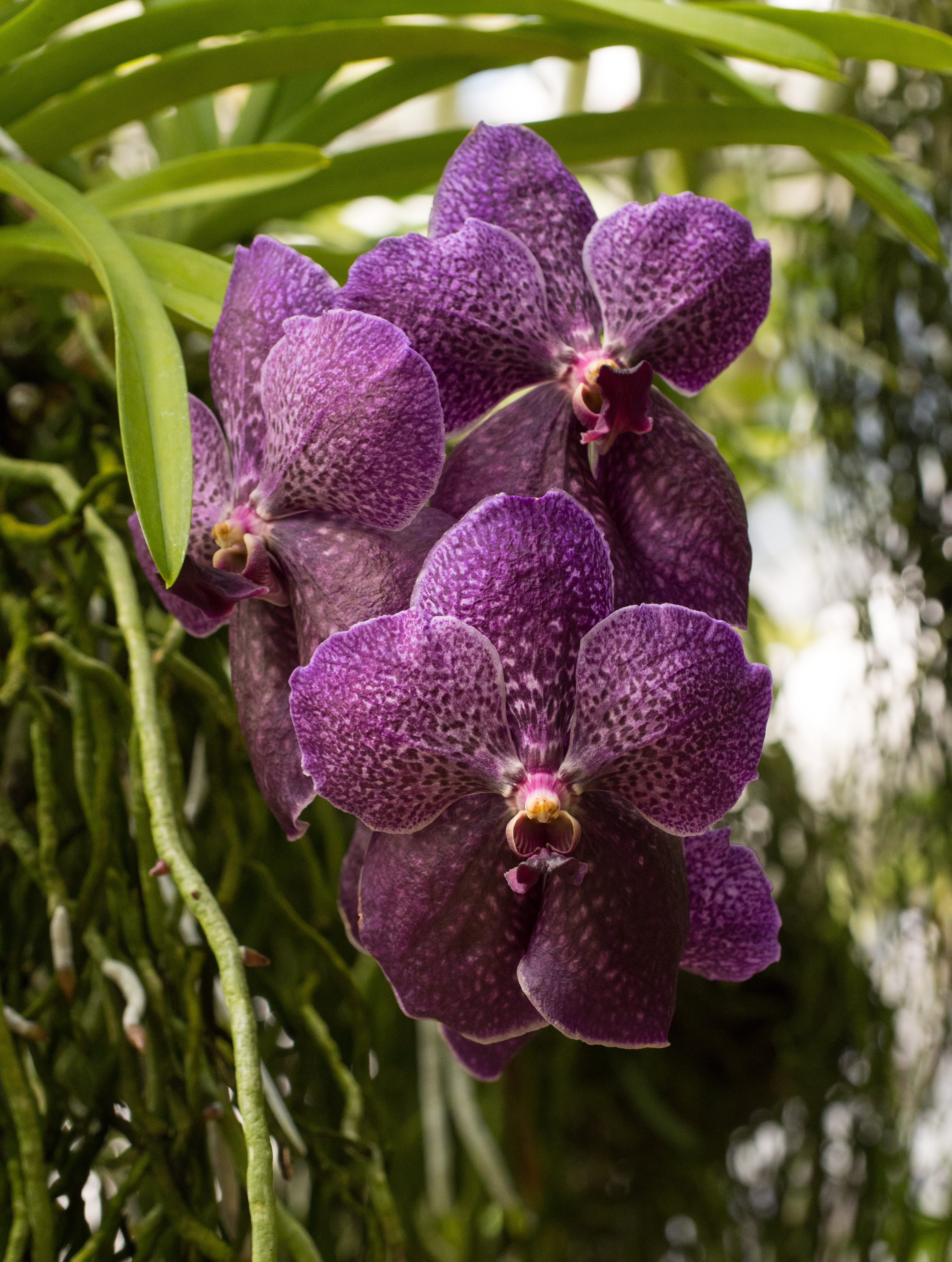 Vanda Robert's Delight x Crownfox Magic orchid at the Brooklyn Botanic Garden.